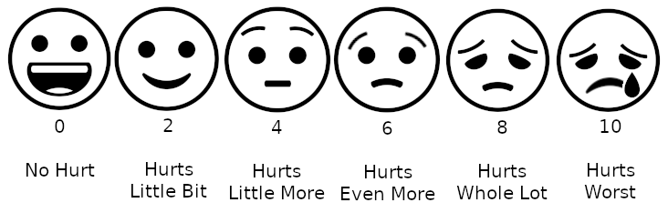 Emoji representation of the Wong–Baker Faces Pain Rating Scale for assessment of pain in children. This file was derived from:✦ Emojione BW 1F600.svg: ✦ Emojione BW 1F642.svg: ✦ Emojione BW 1F61F.svg: ✦ Emojione BW 1F61E.svg: ✦ Emojione BW 1F4A7.svg